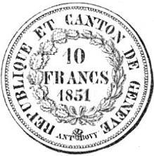 Line Drawing of 1851 shooting thaler of Geneva (KM# 138)